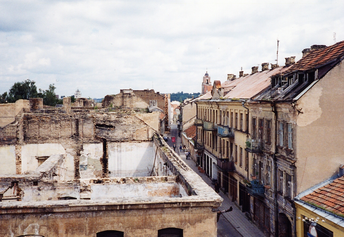 Švento Stepono street. Vilnius. Lithuania. Photo: Soman